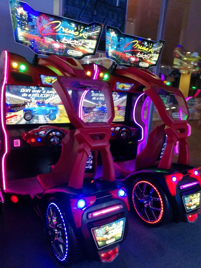 Cruis 'n Blast at Fremont Arcade in Las Vegas, Nevada.